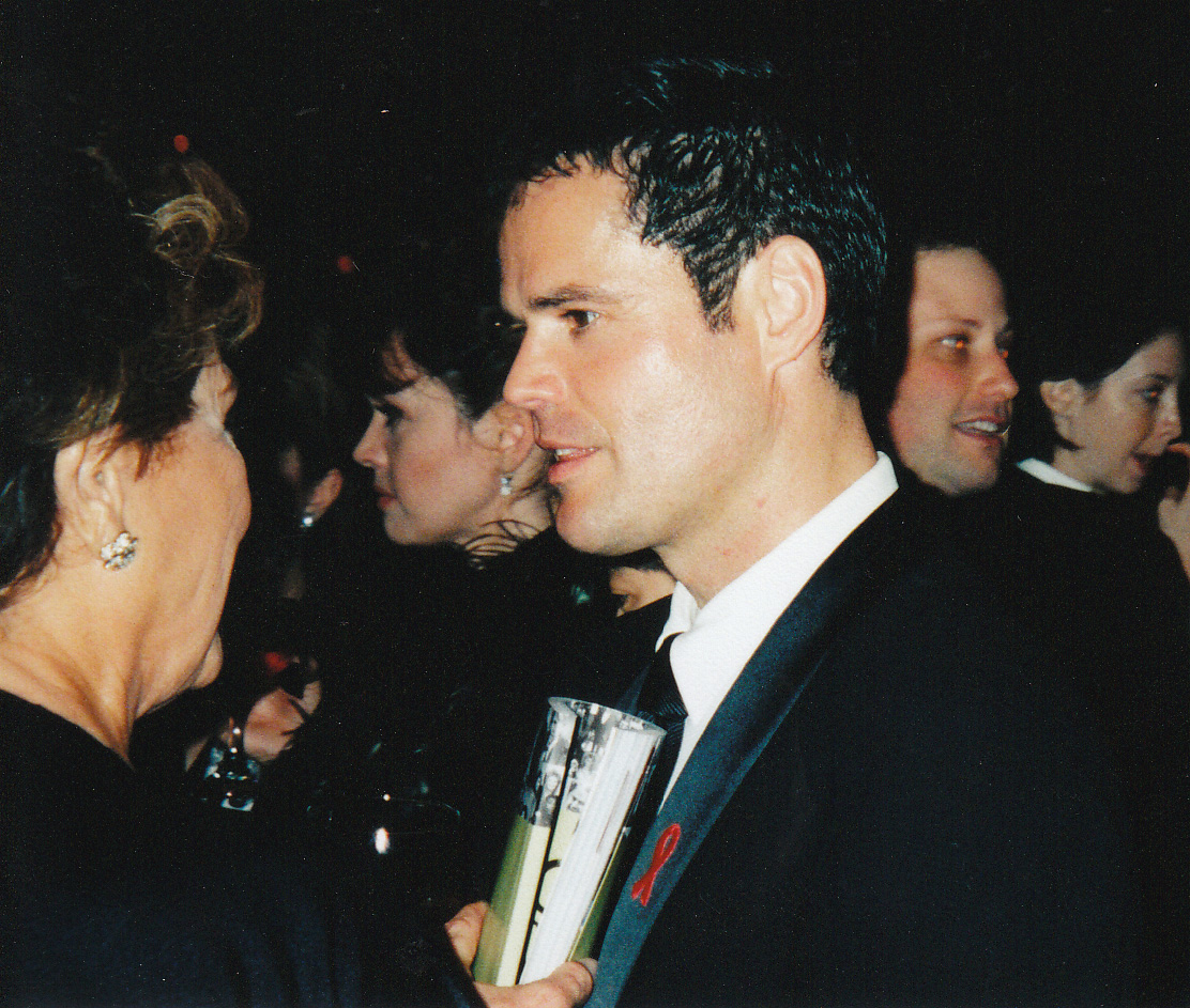 1998 Emmy Awards NOTE: Permission granted to copy, publish, broadcast or post any of my photos, but please credit "photo by Alan Light" if you can. Thanks.